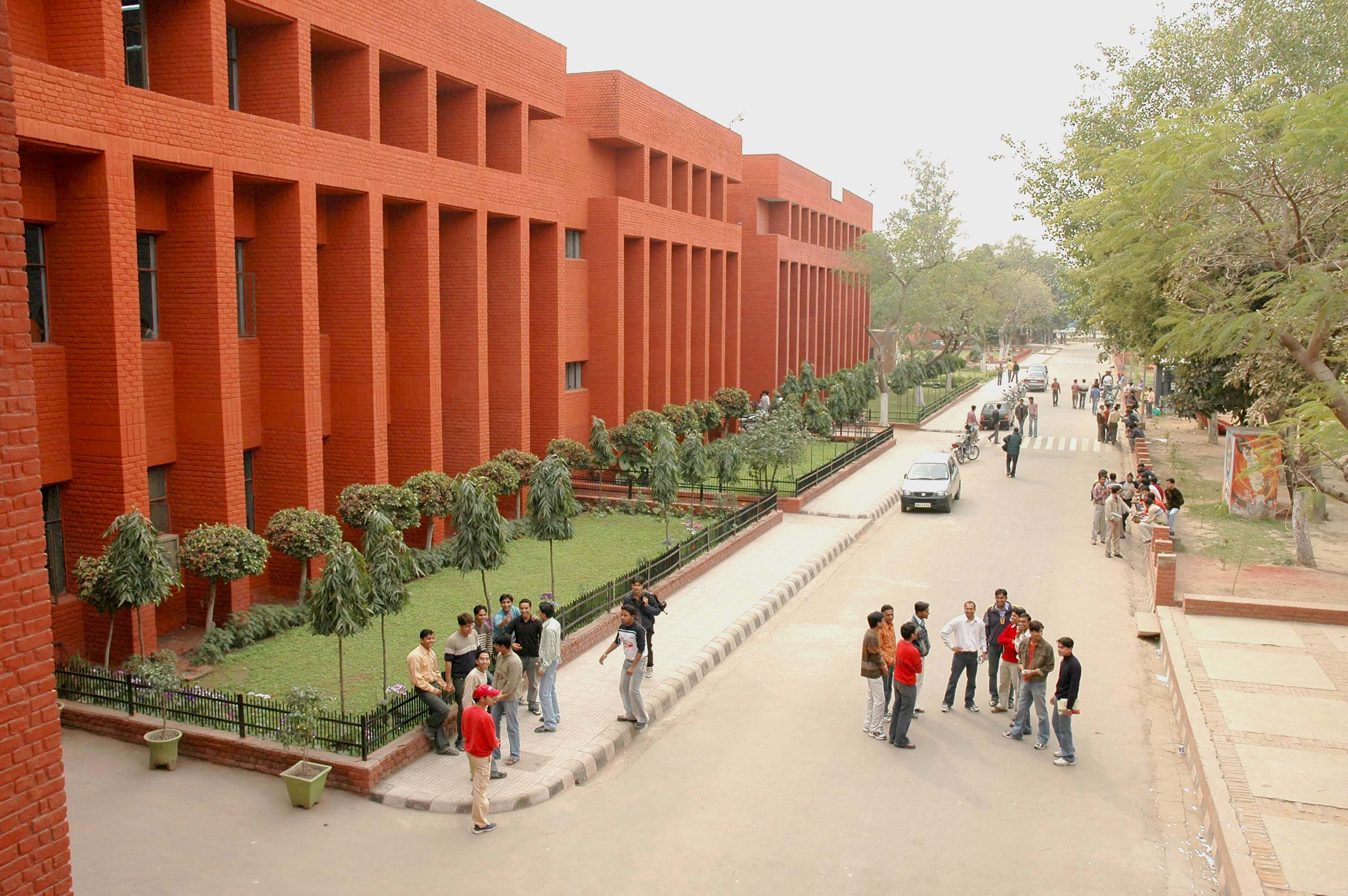 top view of ymca